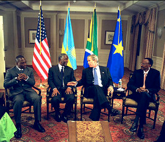 George W. Bush meets with Joseph Kabila of the Democratic Republic of Congo, left, Thabo Mbeki of South Africa, center, and Paul Kagame of Rwanda, right, at the Waldorf-Astoria Hotel in New York City. Cropped from the original at File:Kabila mbeki bush kagame.jpg